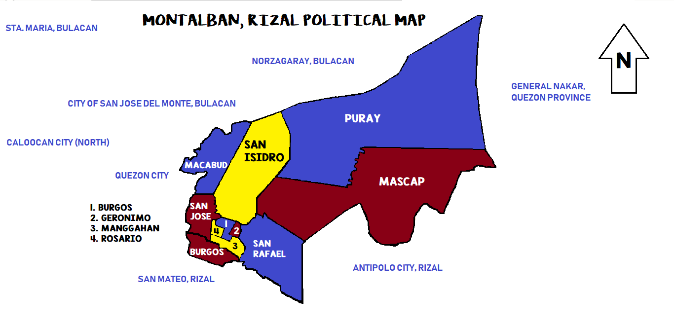 Political Map of Montalban, Rizal, it shows the barangays in the said municipality and its adjacent municpalities/cities in it.